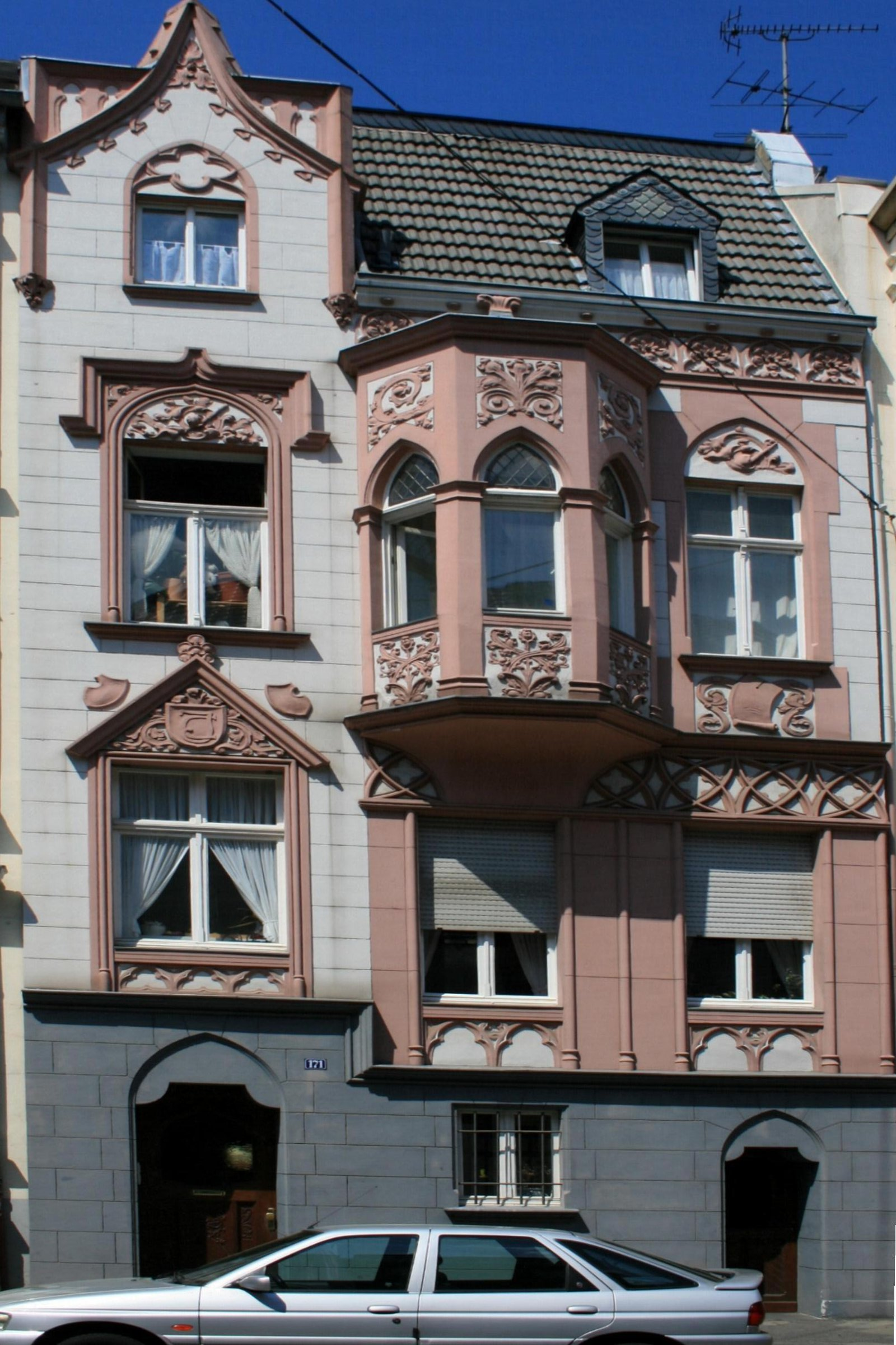 Cultural heritage monument No. K 018 in Mönchengladbach